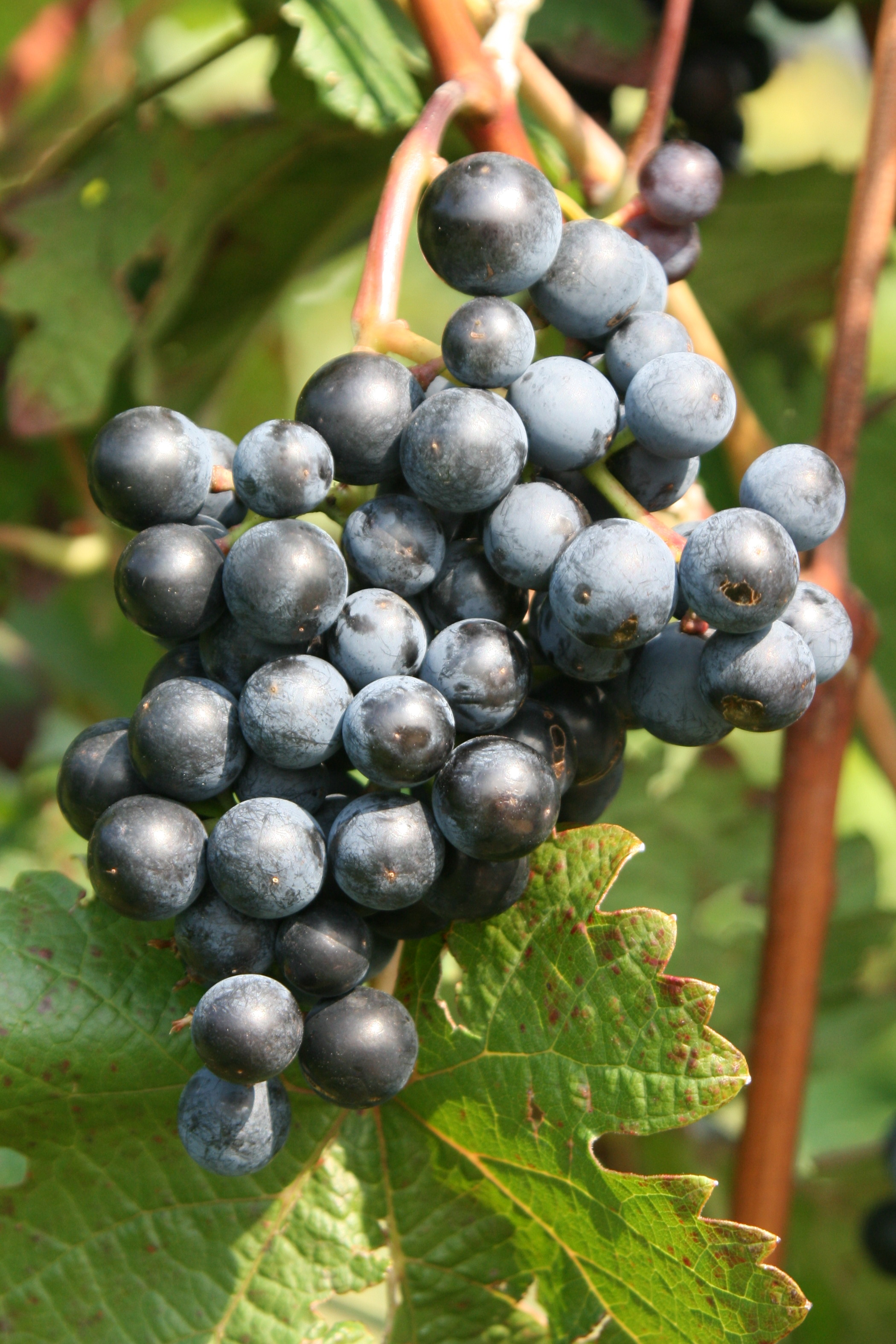 Grapes and leaves of the grape variety Dornfelder, photographed at the viticulture trail on the Schemelsberg hill in Weinsberg